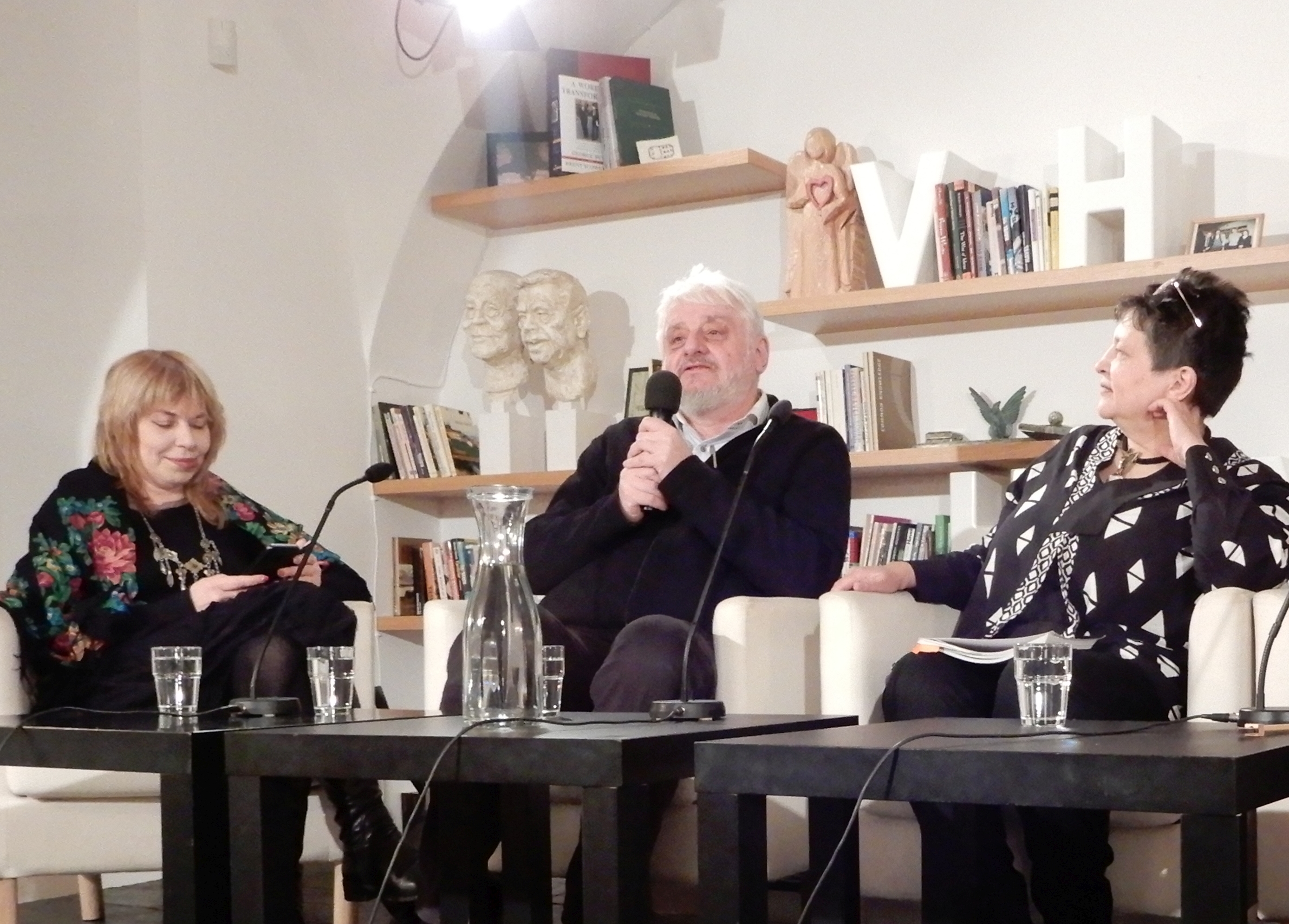 Boris Chersonskij with his wife and with Czech translator of his book Džamila Stehlíková in the Václav Havel Library in Prague 28.11.2018